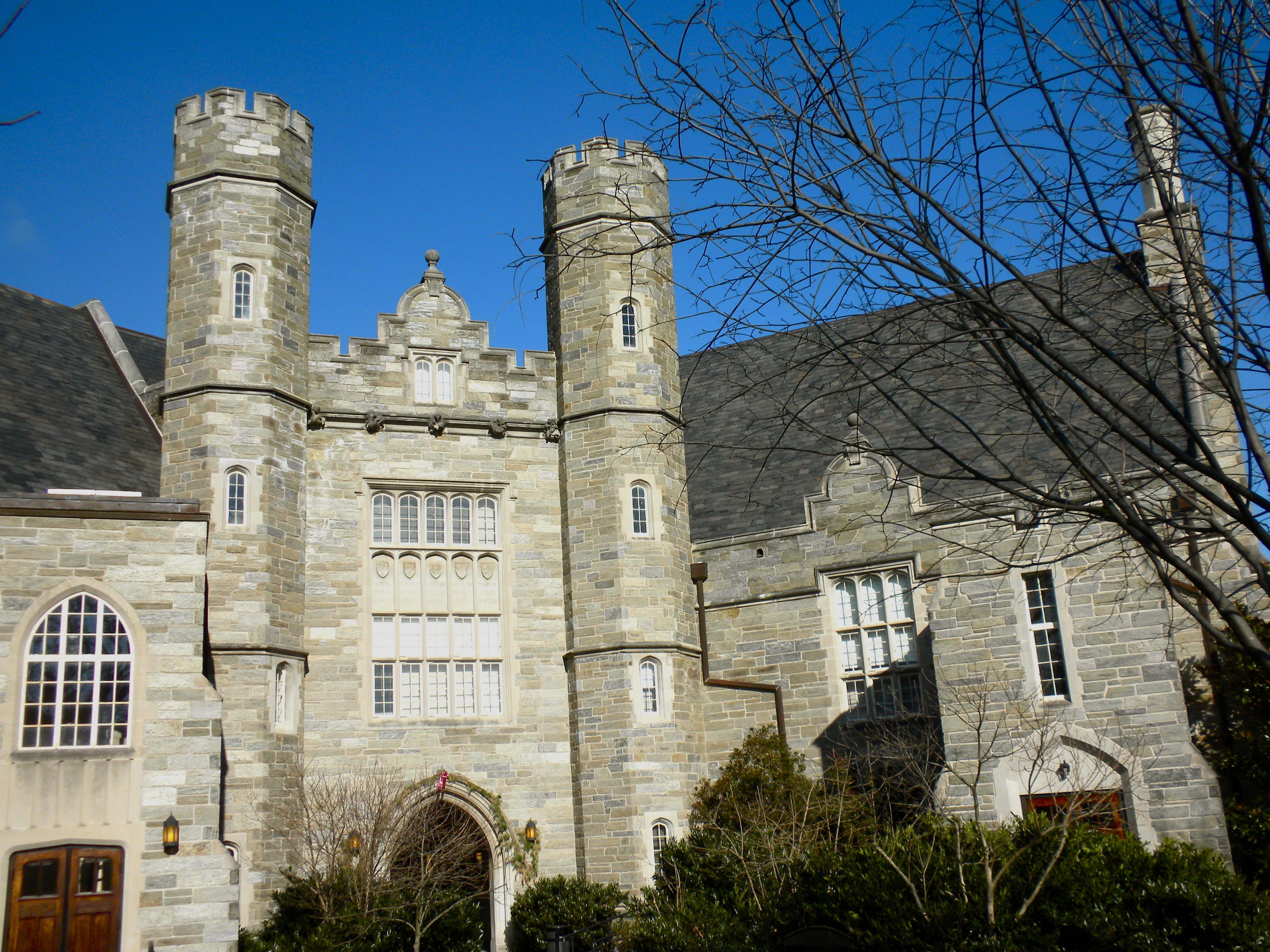 Philips Building on the quadrangle of West Chester University, West Chester, PA Other side is South High Street. Quadrangle is on the NRHP. I donate this photo to the public domain.